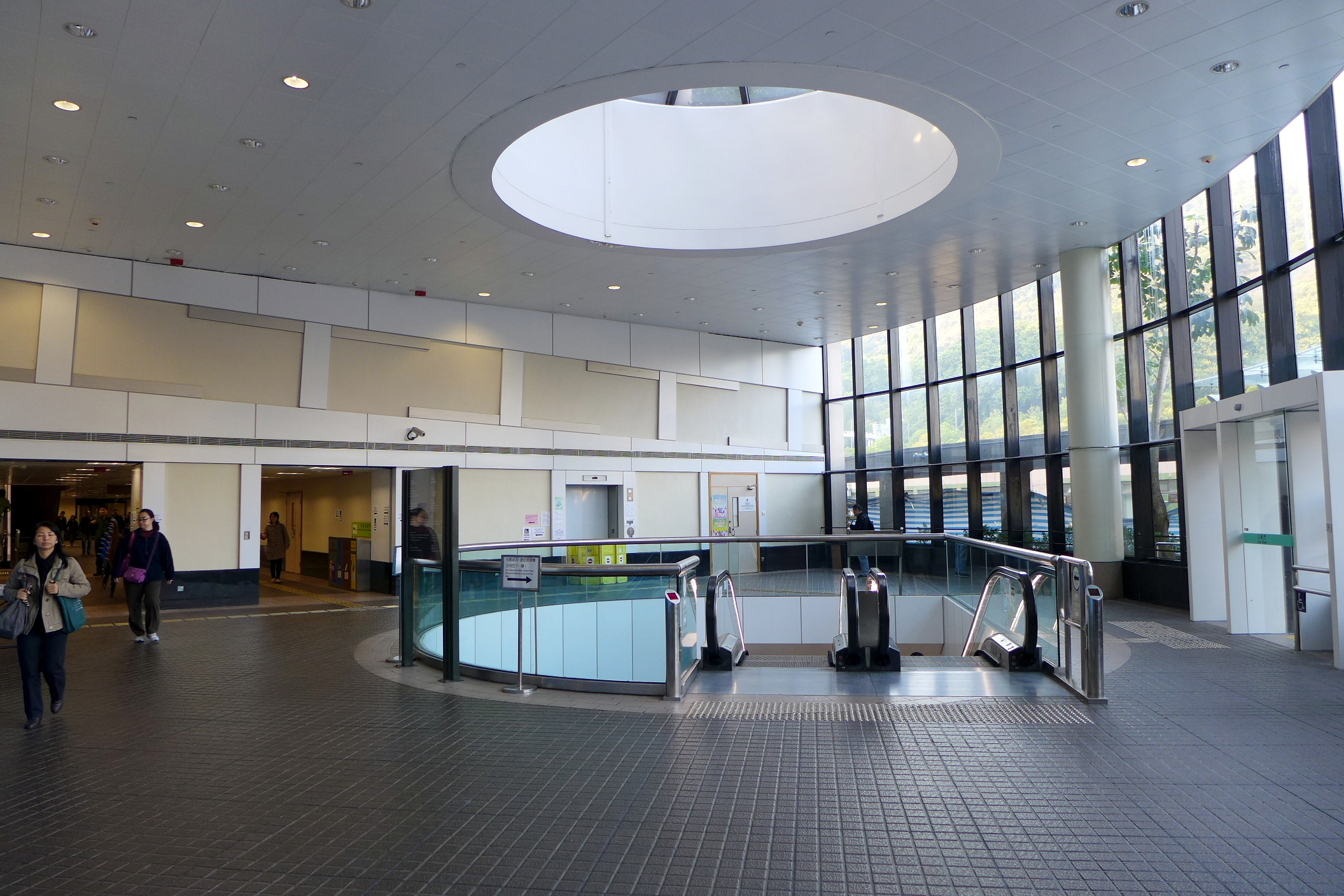 Tsuen Wan Government Offices Entrance Lobby